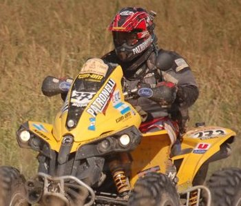 Marcos Patronelli (Argentina). Subchampion Quads. Rally Dakar 2009. Picture taken at Punta Alta (Provincia de Buenos Aires), Argentina.